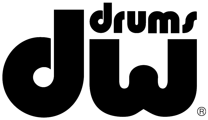 Logo of Drum Workshop, a drummer manufacturer of the United States.